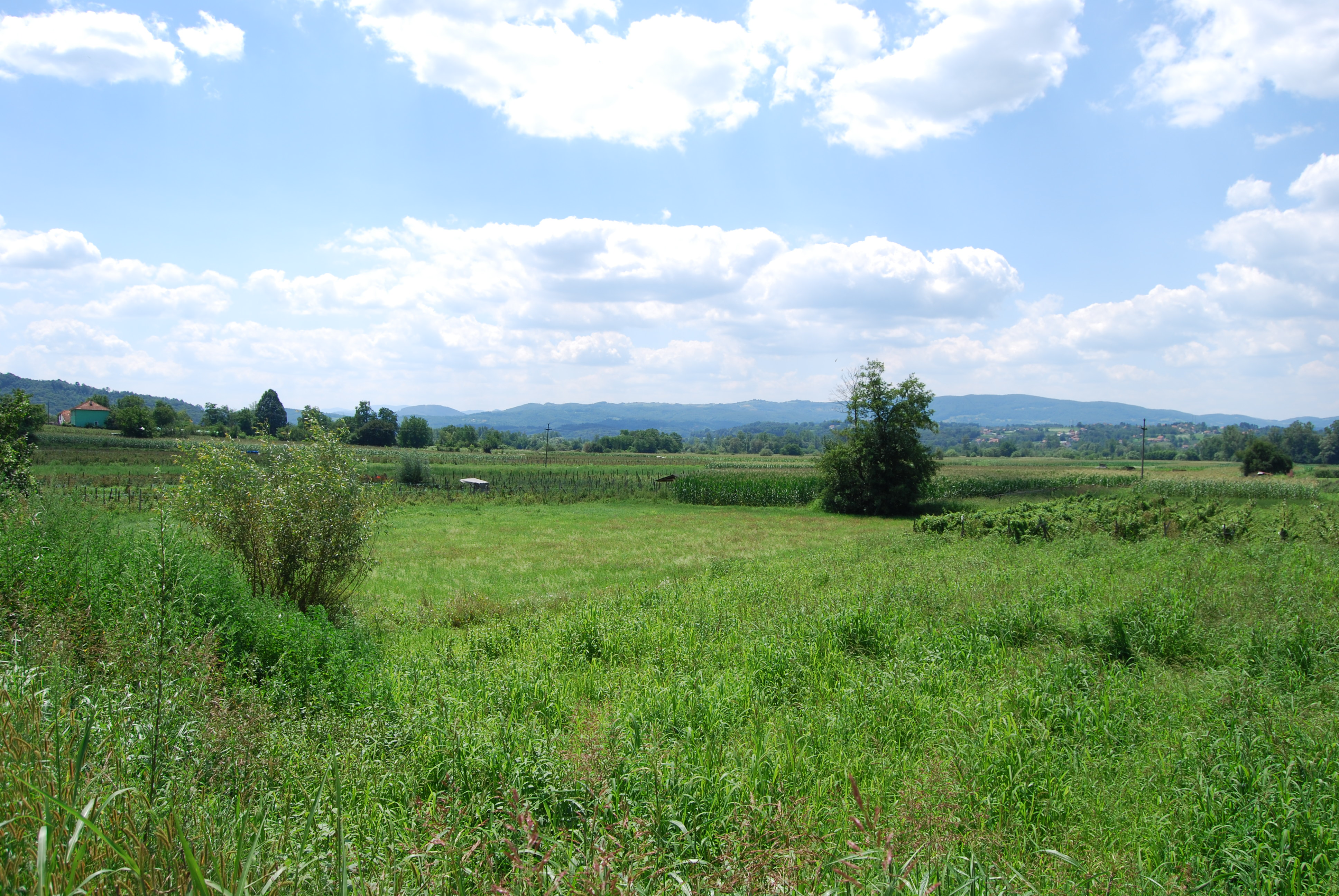 Velika humka, an archaeological site in the village of Pilatovići, Požega